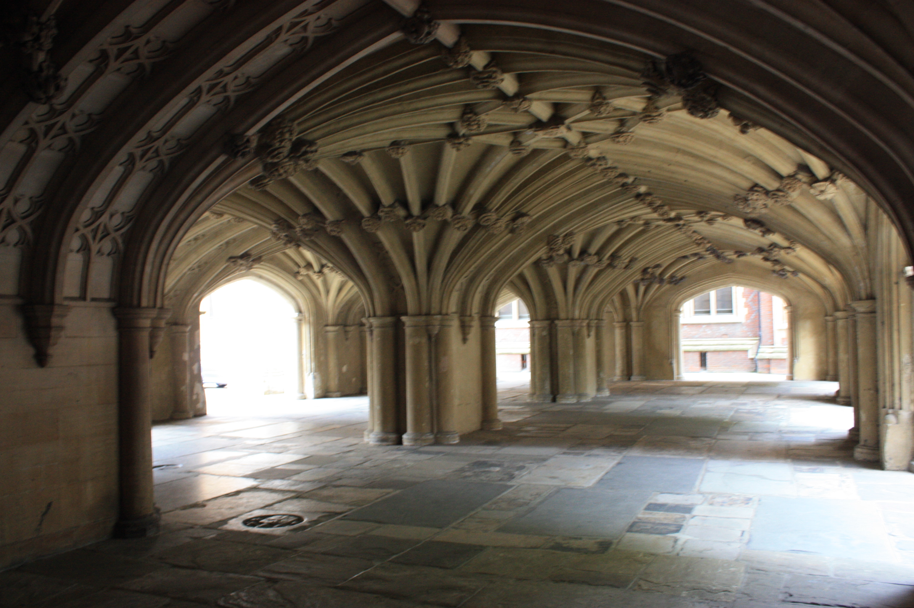 15th century vaulting below Lincoln's Inn Chapel